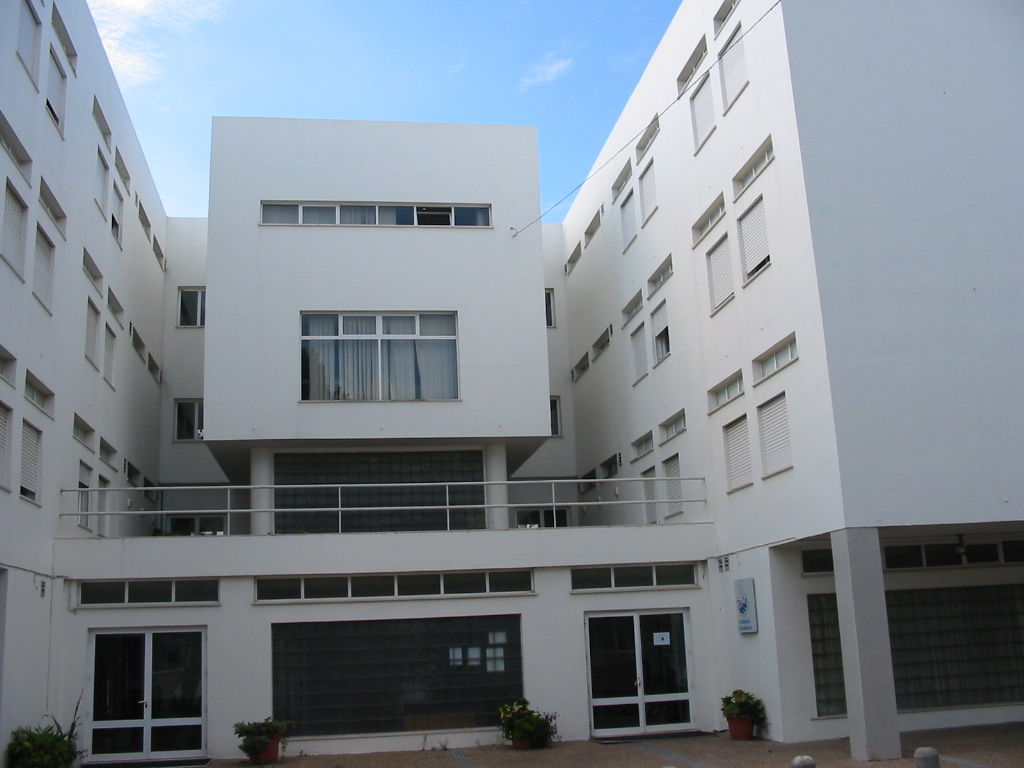 Residência Maria Beatriz no campus do ISEL.